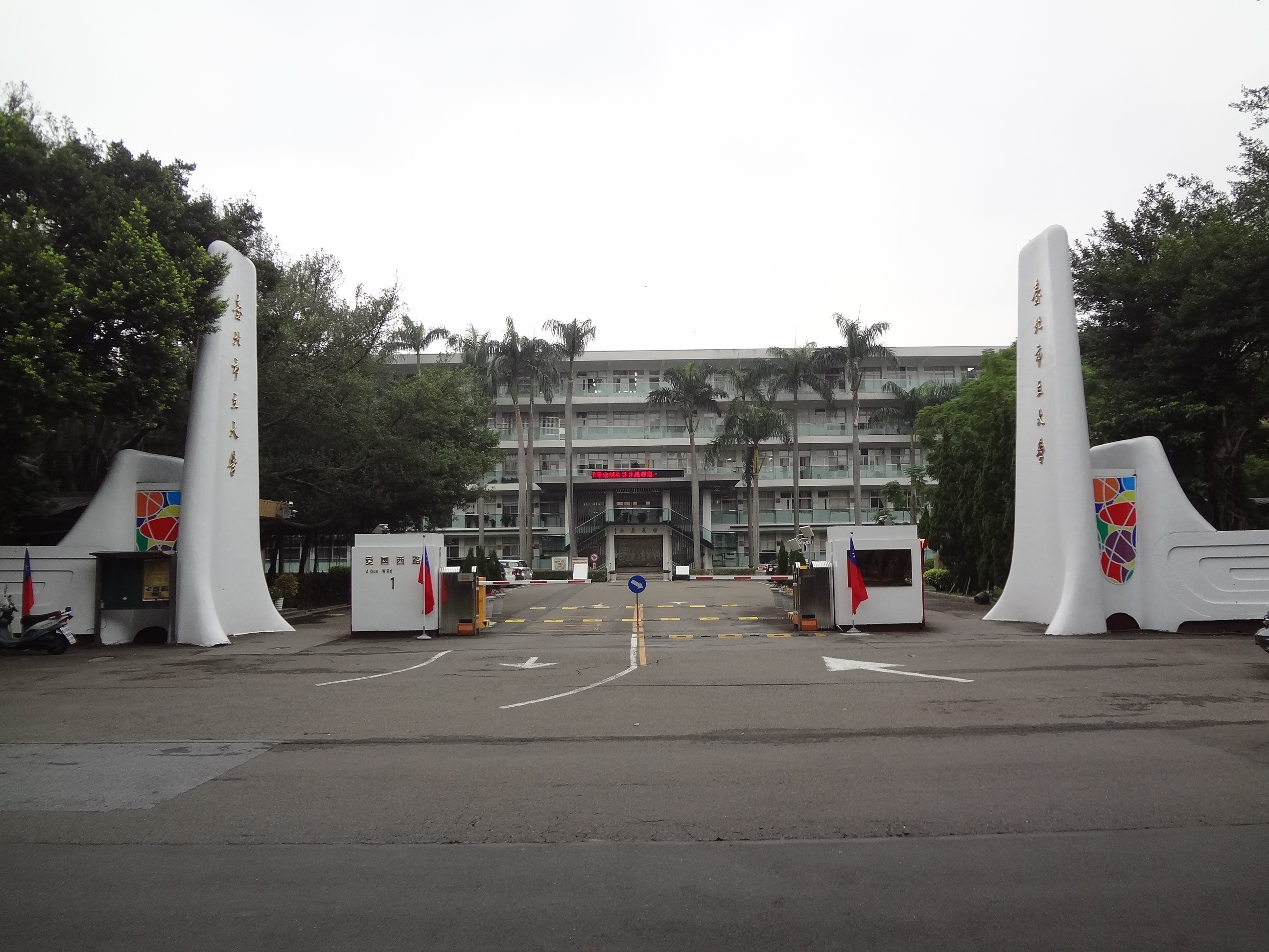 The main gate of Bo'ai Campus, University of Taipei.